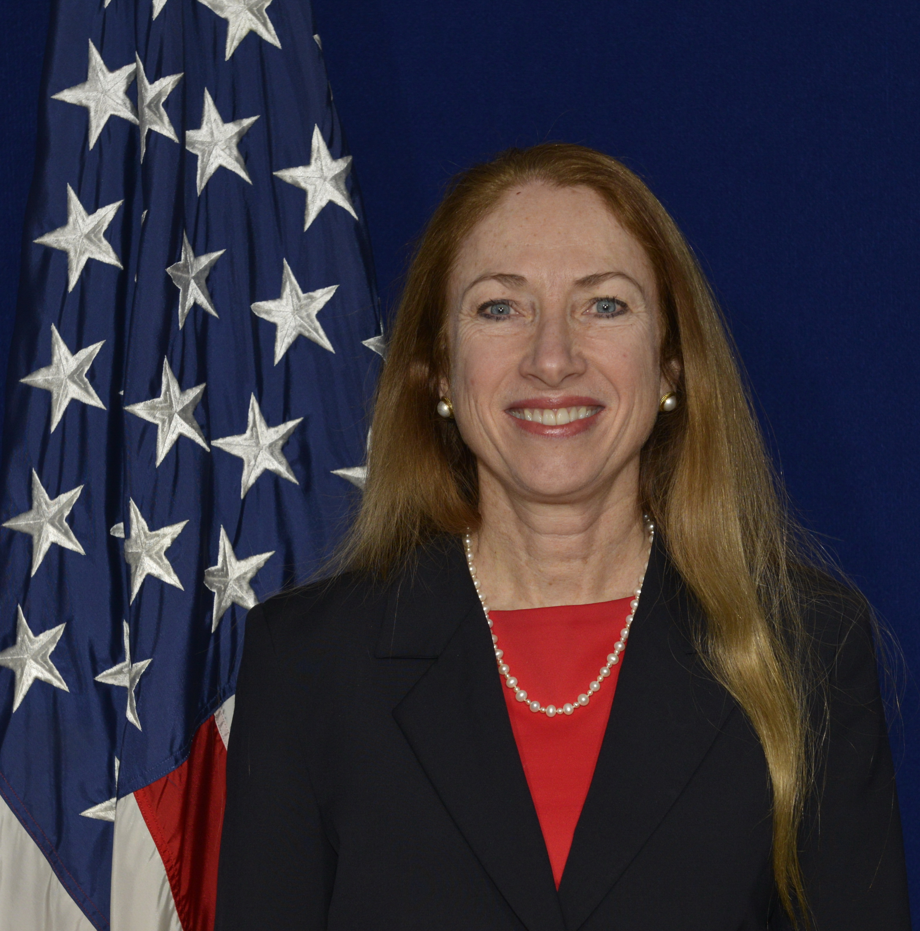 Depicted person: Kelly C. Degnan – American diplomat